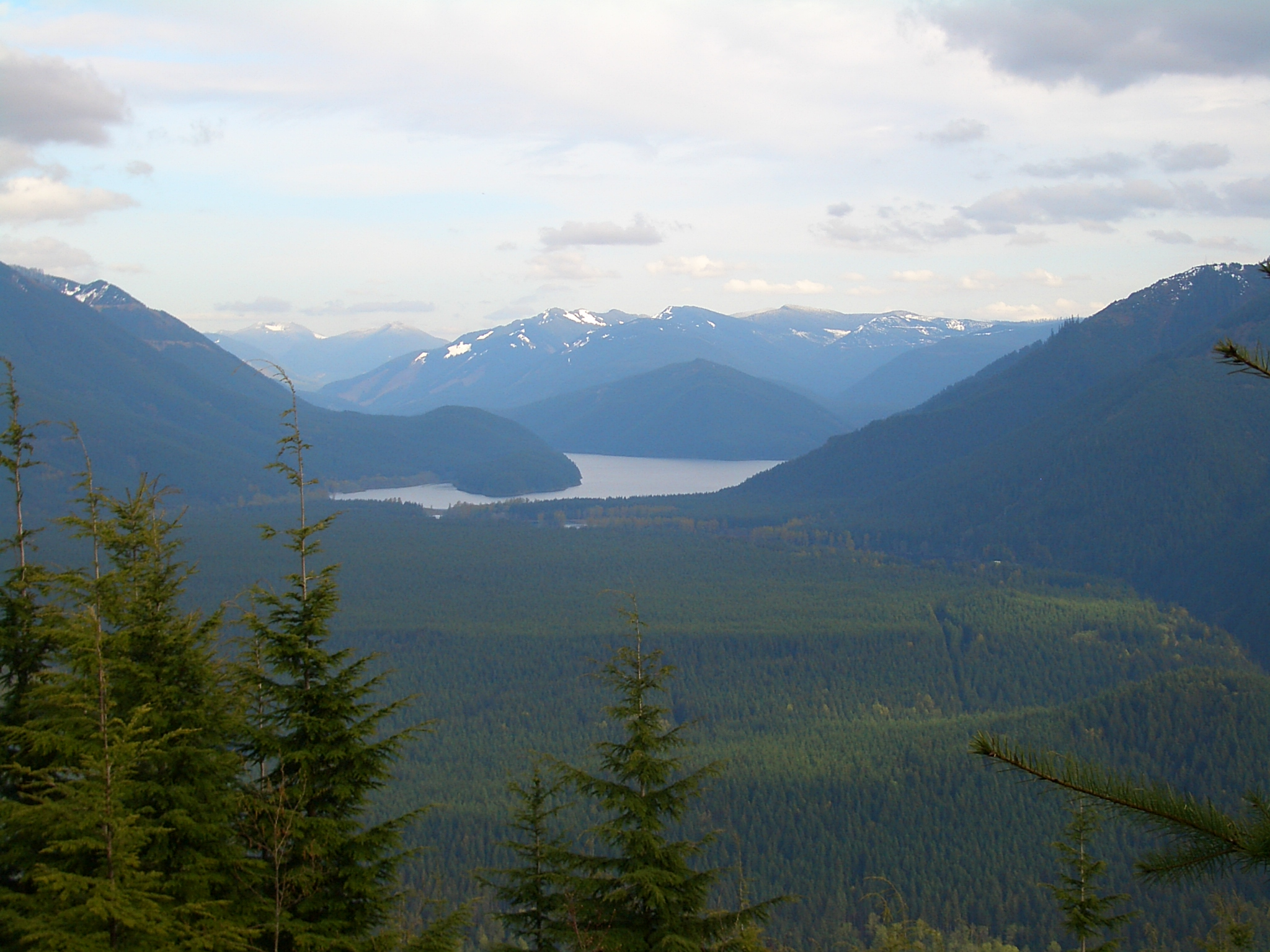 Chester Morse Lake seen from Rattlesnake Mountain (the Middle or Upper Ledge).